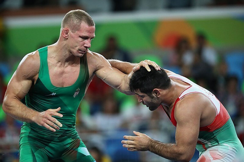 Rio 2016; Greco-Roman Wrestling 75 kg